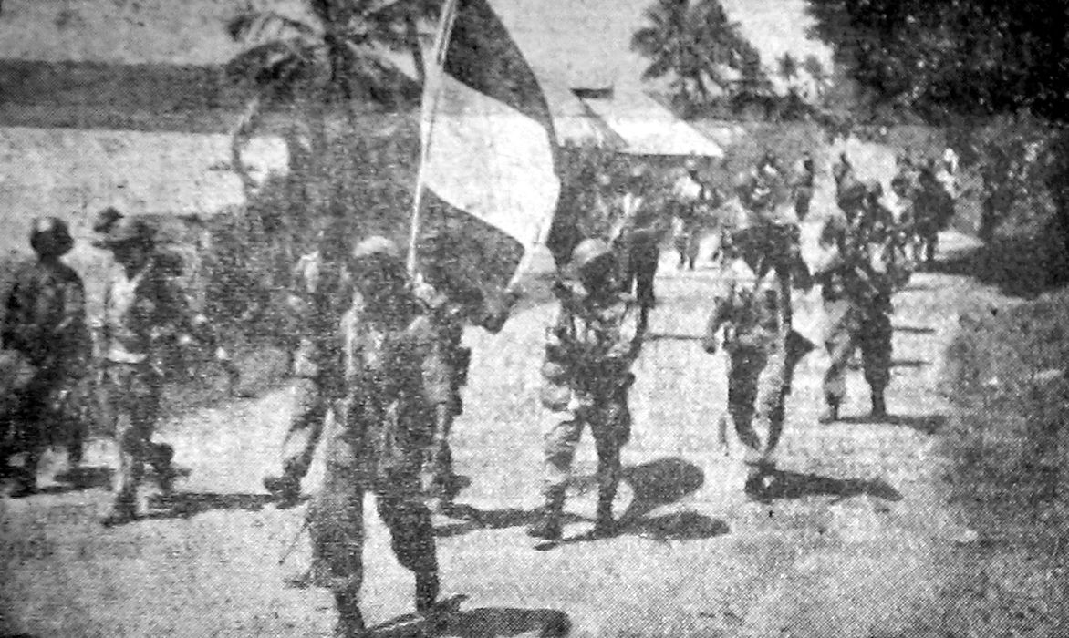 Slamet Rijadi leading his soldiers into Ambon